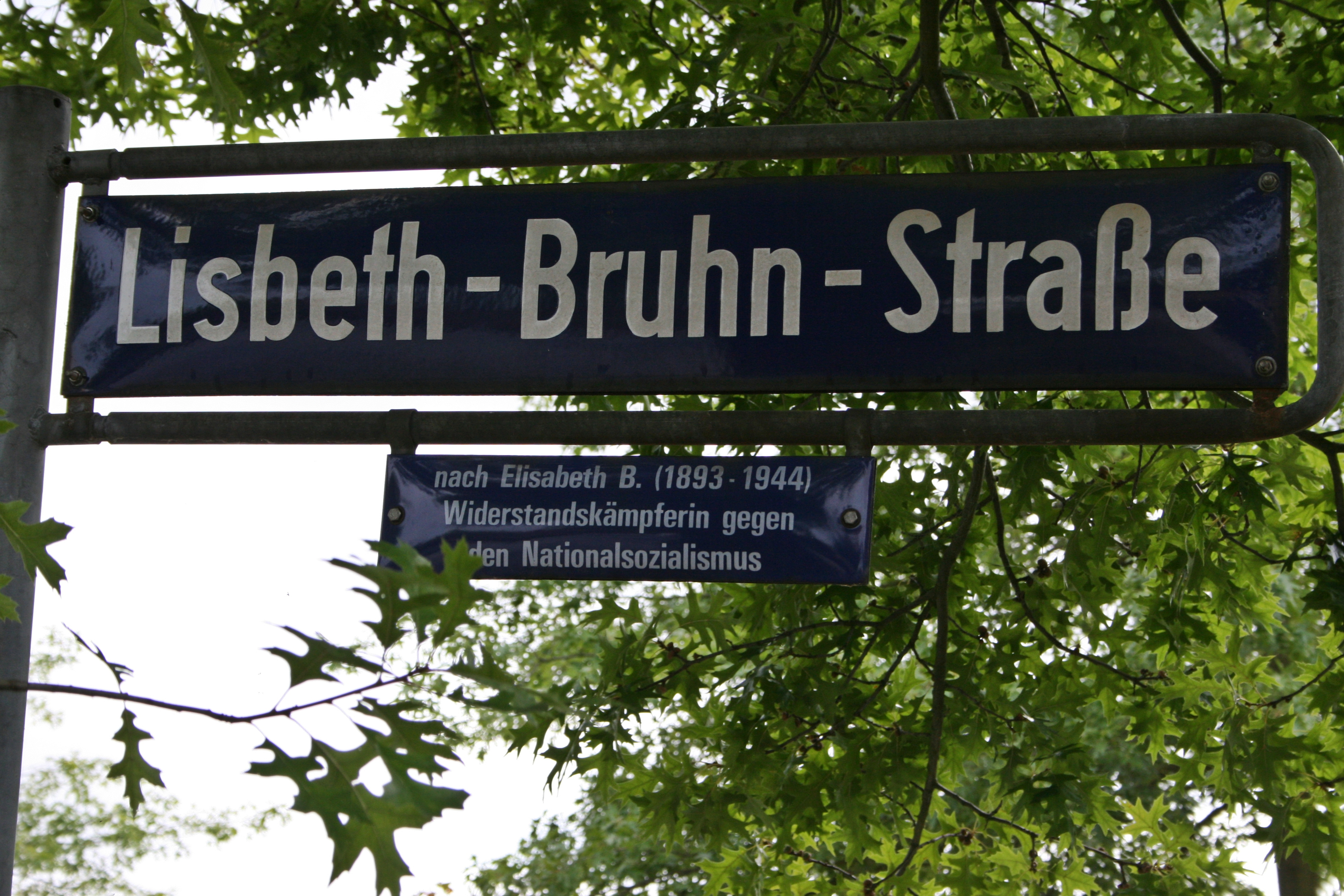 Road sign of the Lisbeth-Bruhn-Straße, named after a member of the resistance against Nazism